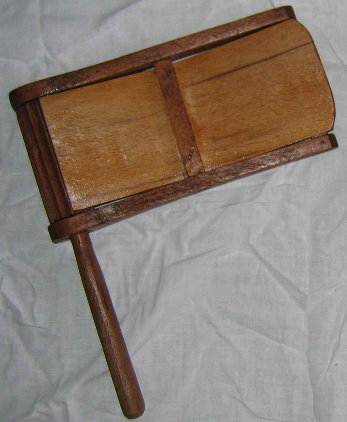 A "Raspel" from the Eifel region in Belgium. Tool to make noise in traditional Easter customs